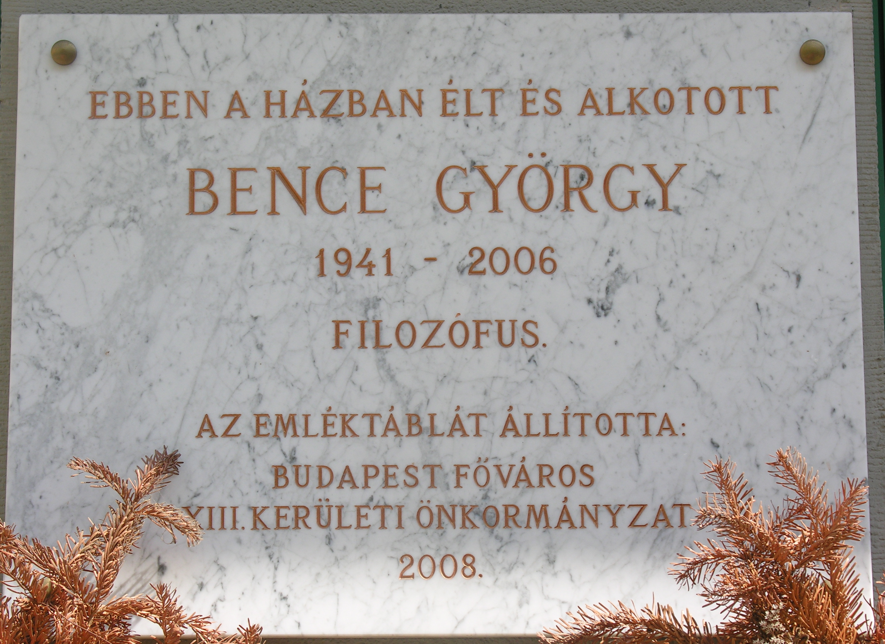 Commemorative plaque of György Bence in Budapest District XIII, Katona József Street No 27